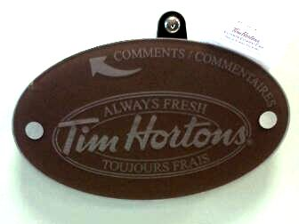 The comments box in both French and English at the Tim Hortons at the SUNY Albany campus center